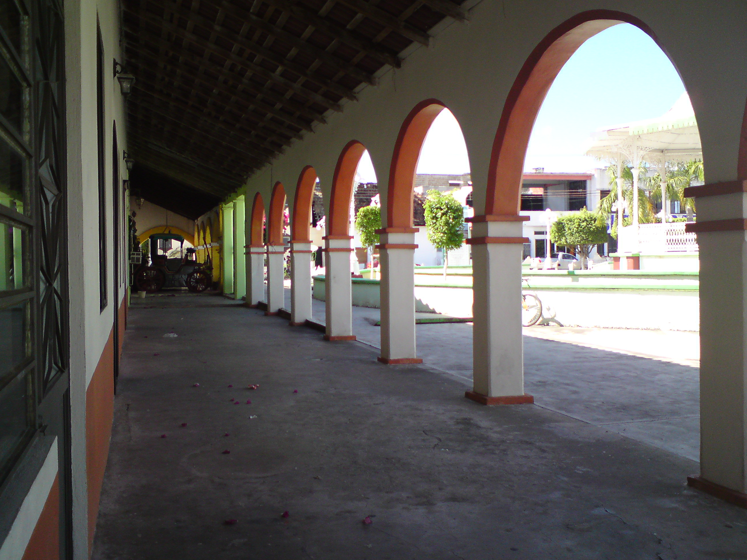 Family-owned Casa Dehesa, one of the oldest houses in the city, its construction date goes back to the beginning of the century, has a design portals on its exterior facade, its roof is made up of French tiles.